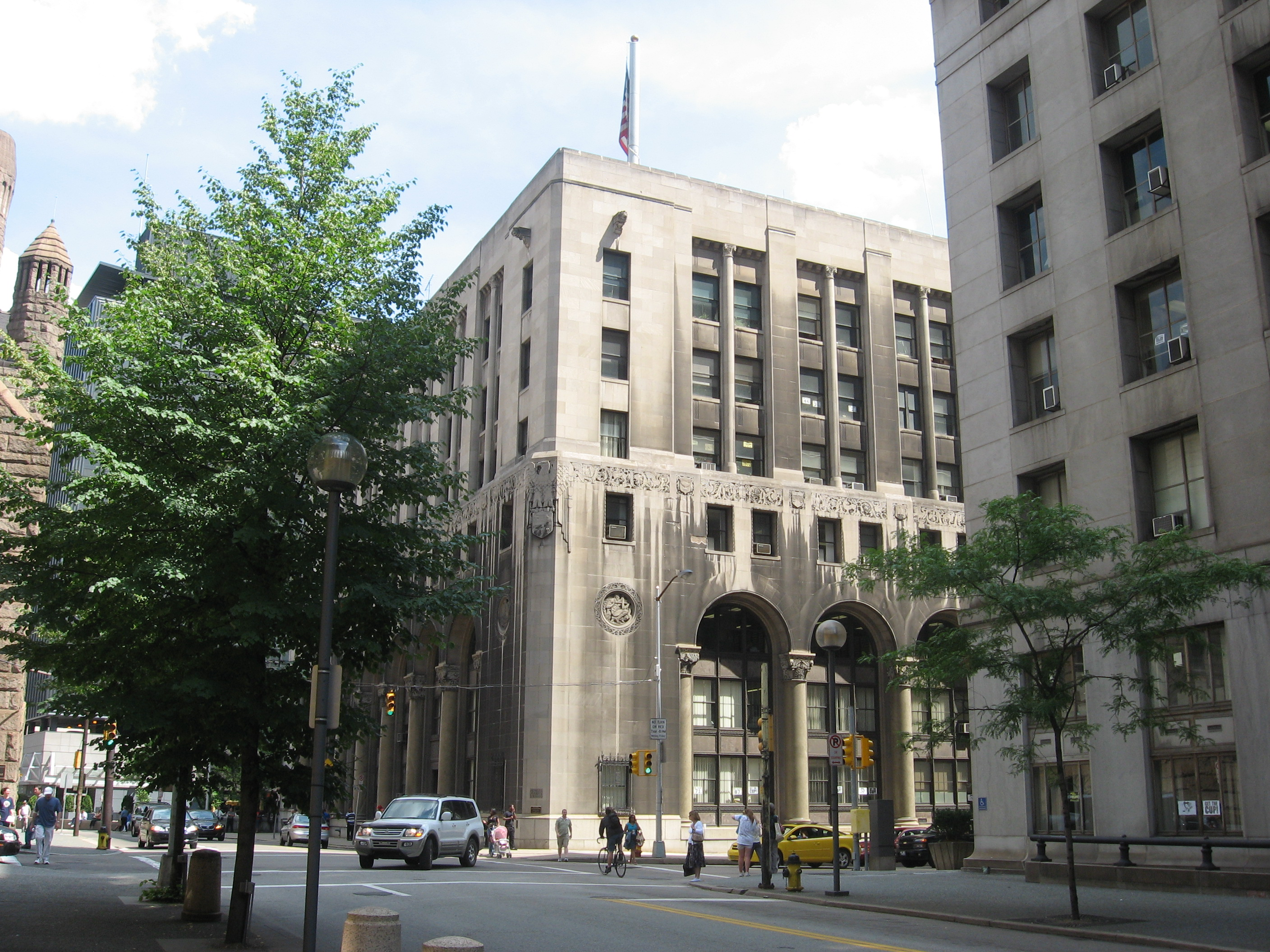 The Allegheny County Office Building in Pittsburgh40°26′17.8″N 79°59′48.4″W / 40.438278°N 79.996778°W